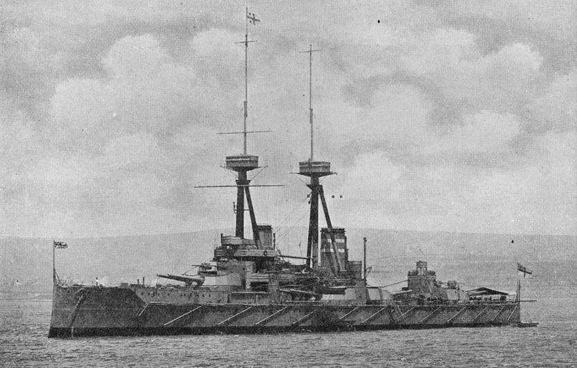 HMS St Vincent (1908) at anchor